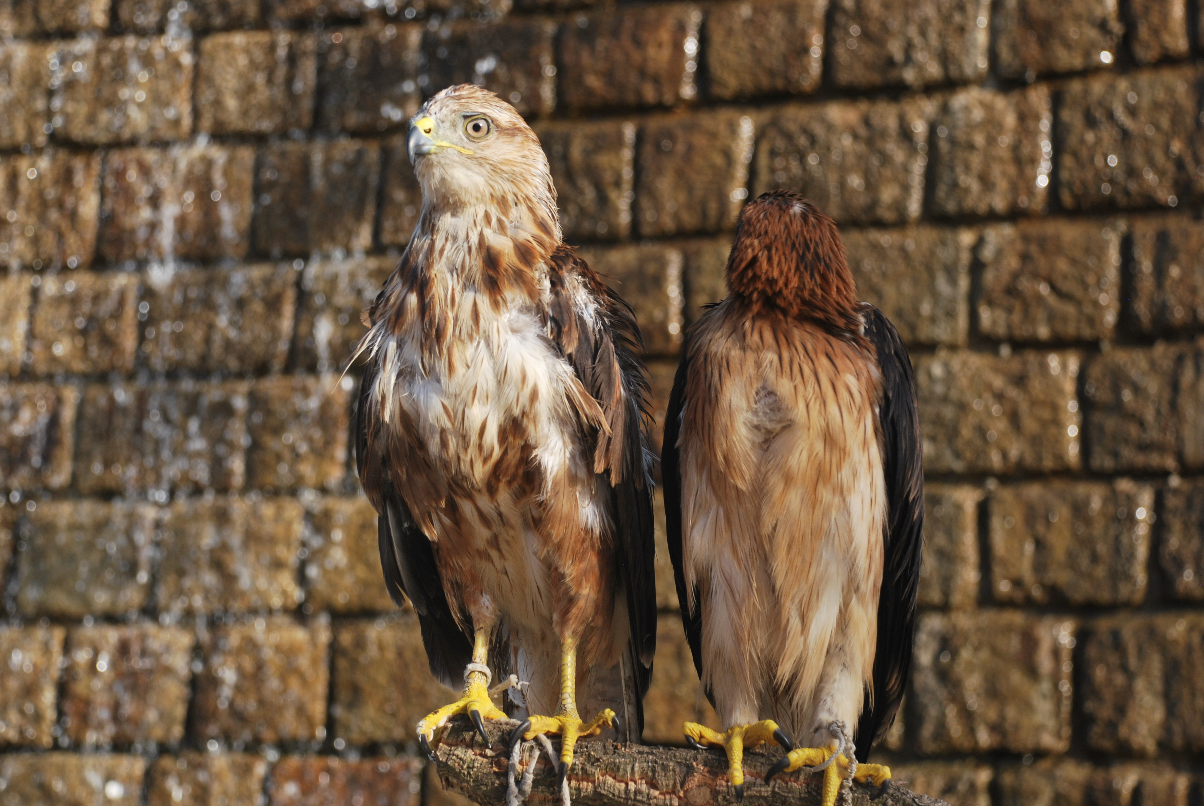 Eagle in an touristic place in north Algeria.